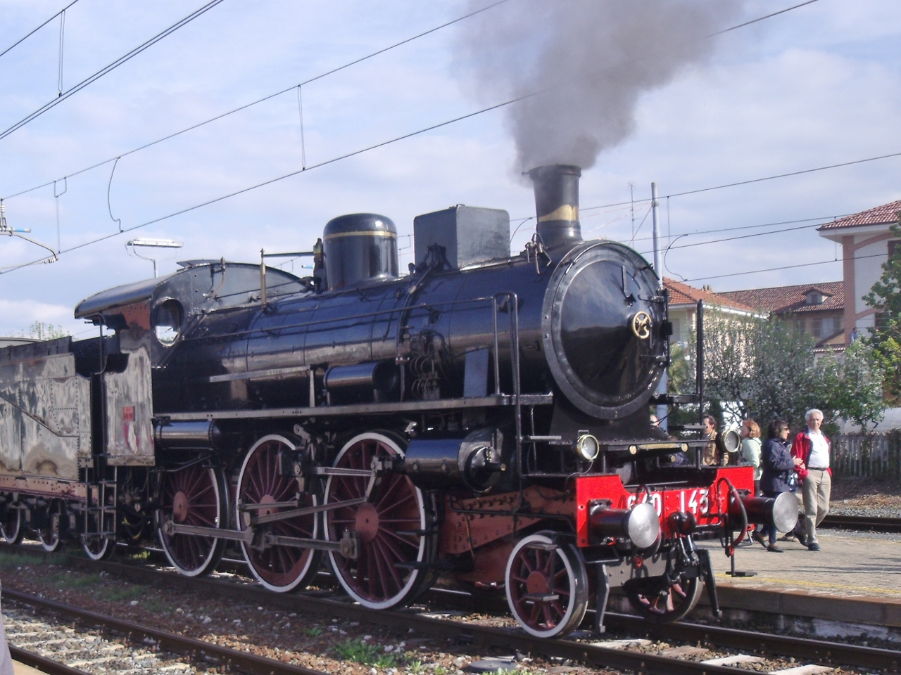 Mogul class 640 No 640-143 preserved steam loco kept at Luino. Seen here at Bra on excursion from Torino to celebrate spring in historic Bra. See video at